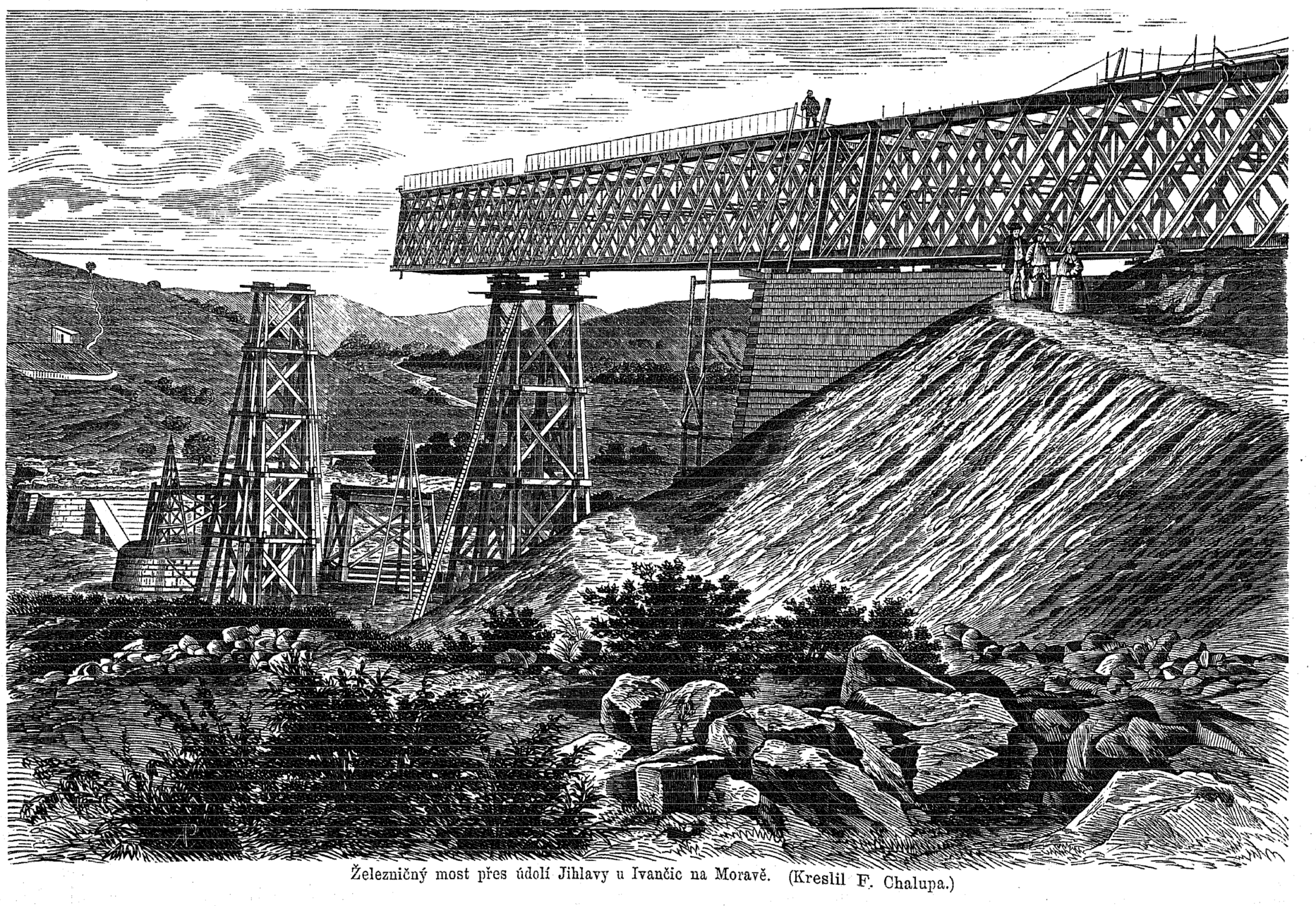 Construction of the original Ivančice rail bridge over the Jihlava river outside Moravské Bránice.